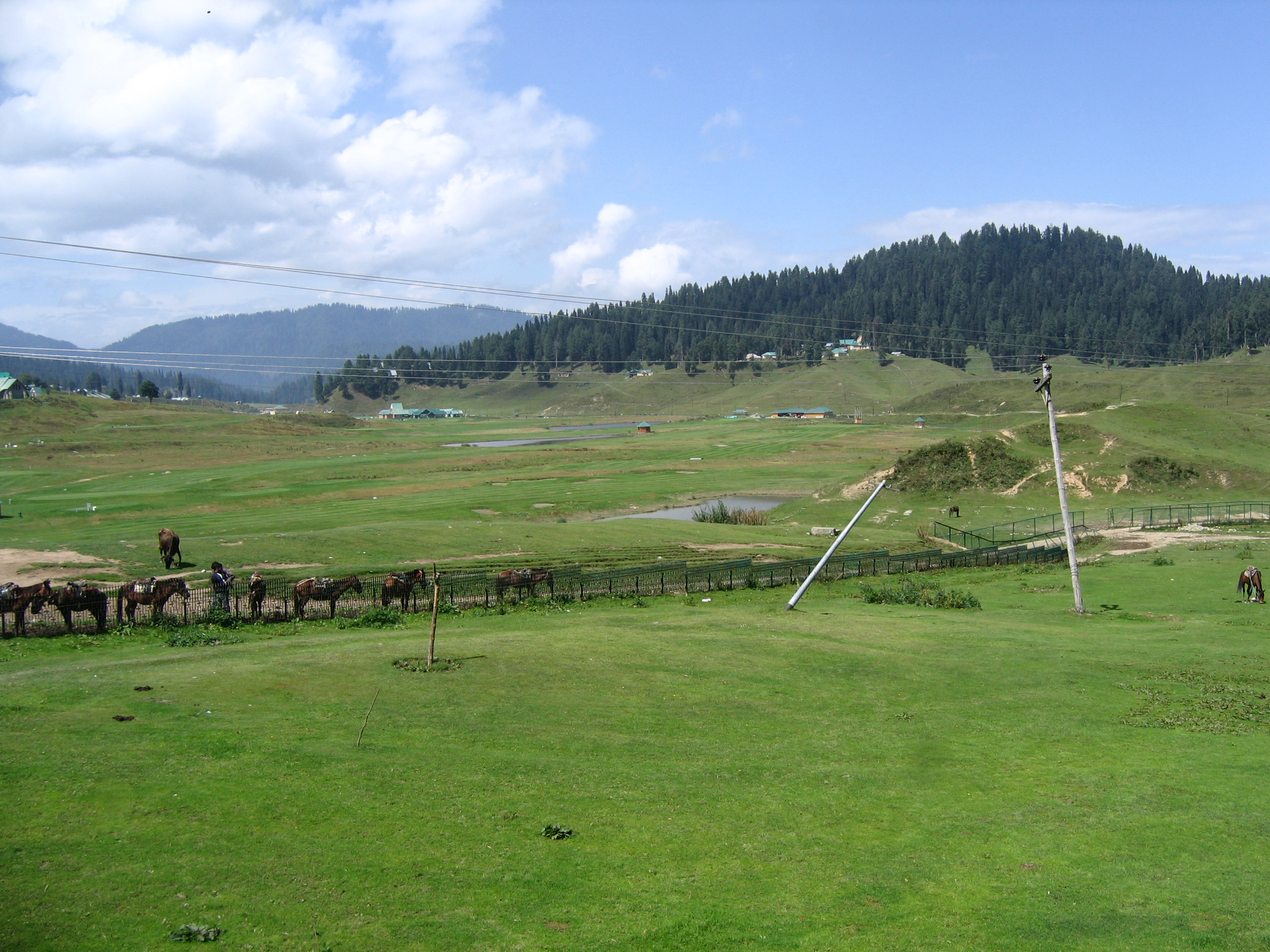 Gulmarg - Srinagar views